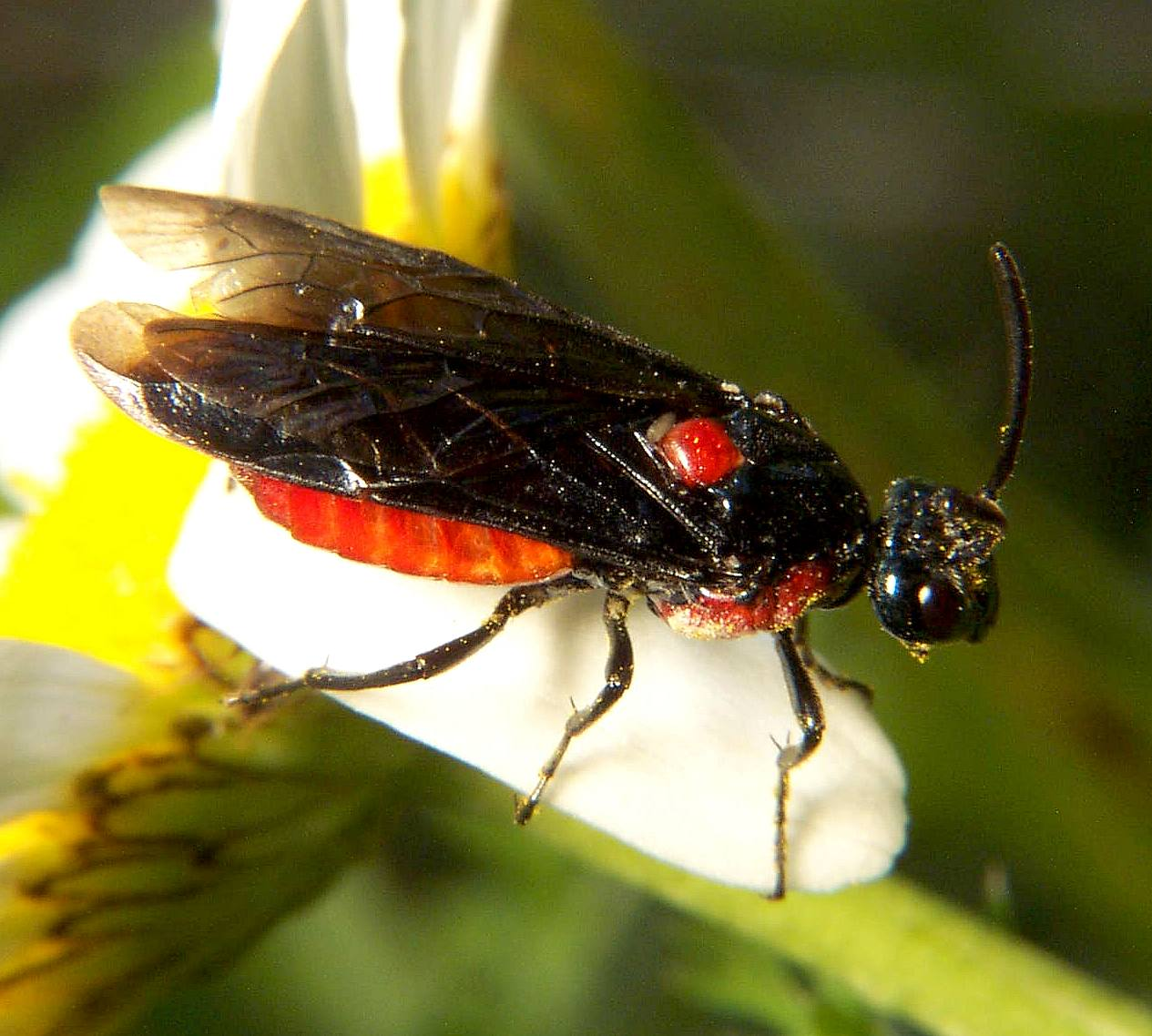 jpeg image, low resolution cropped copy, Argid Sawfly, Arge humeralis